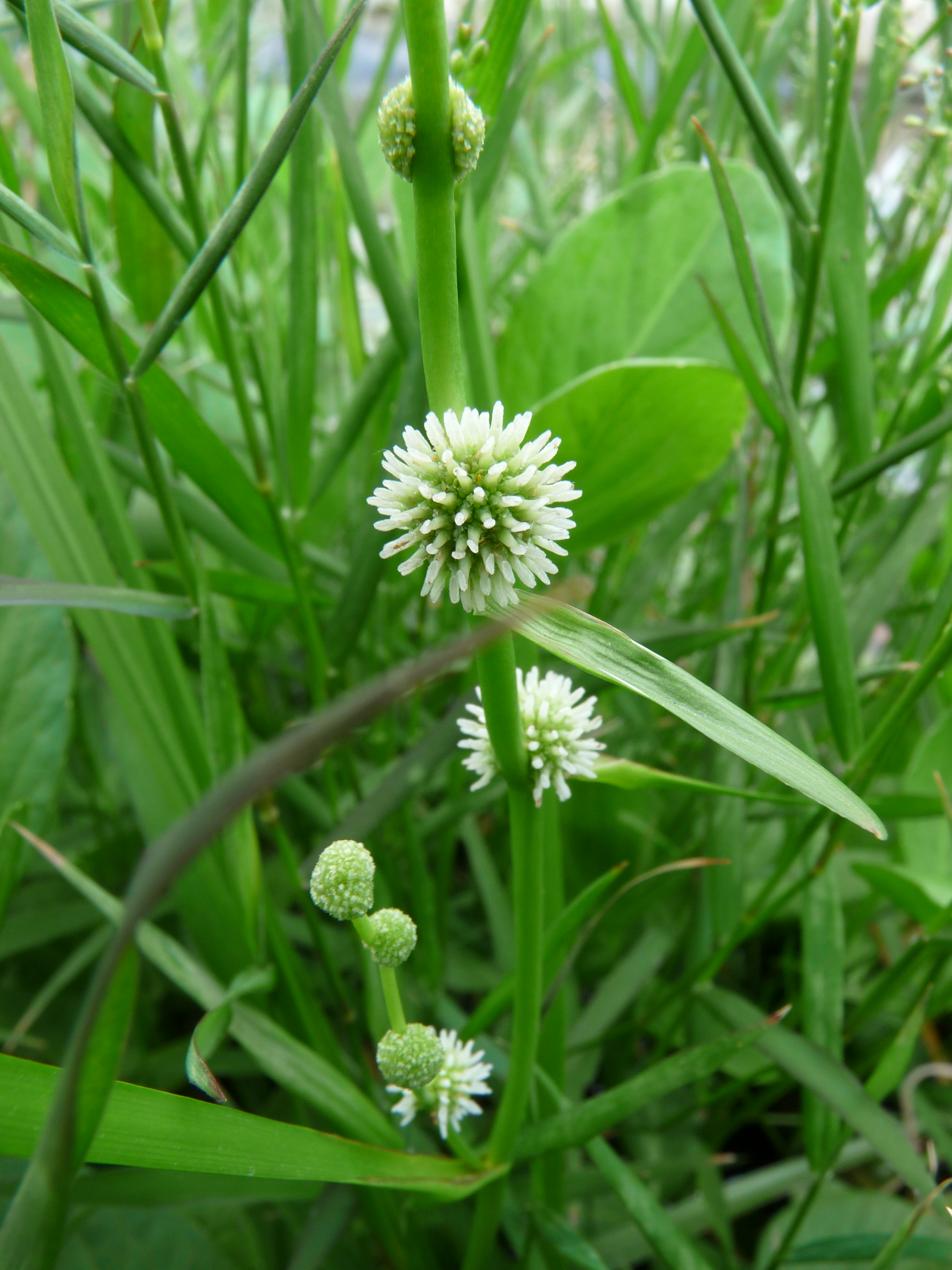 Sparganium stenophyllum Maxim.